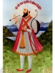 Scanned image of Guru Ji